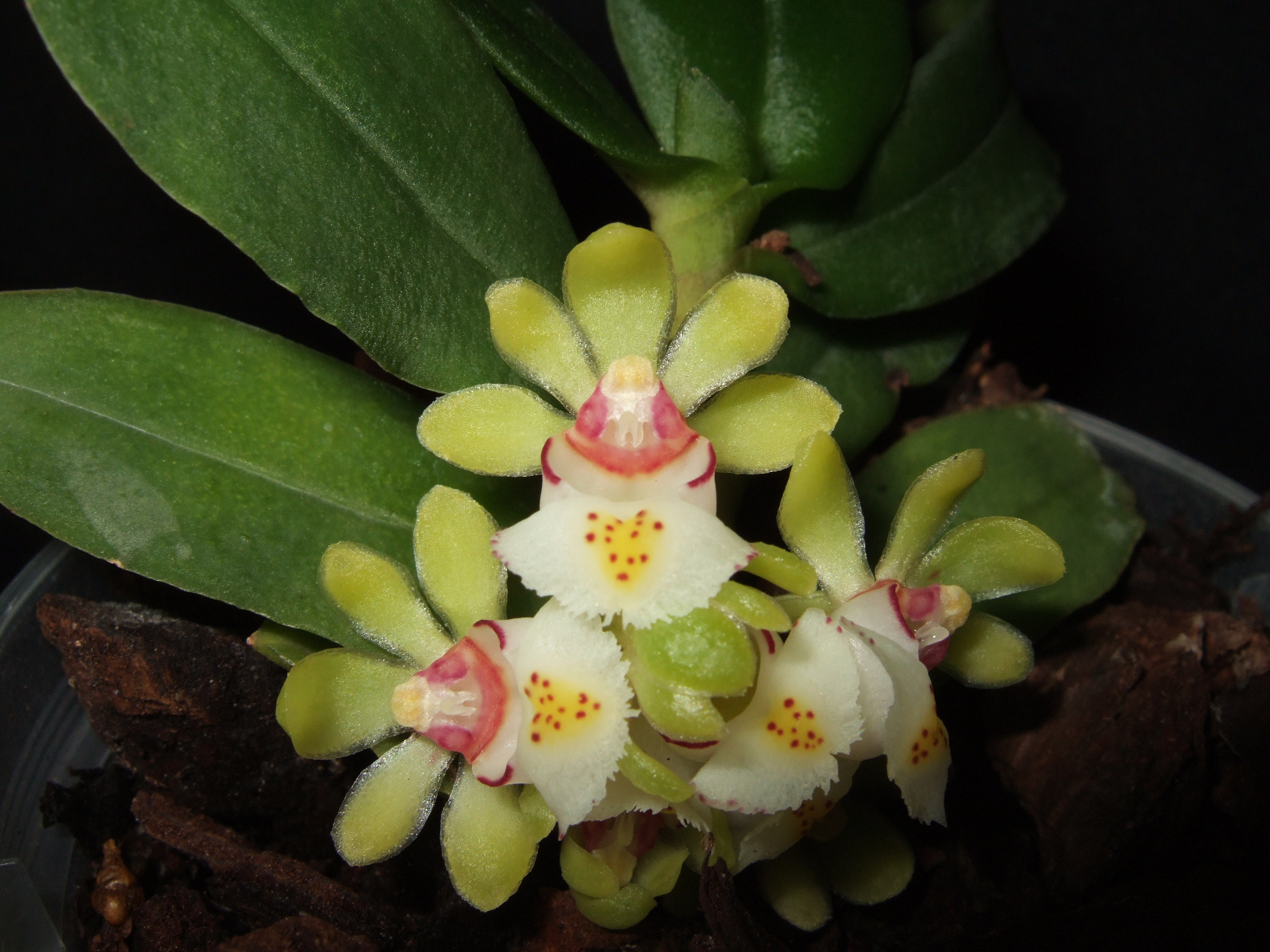 Gastrochilus somae flower